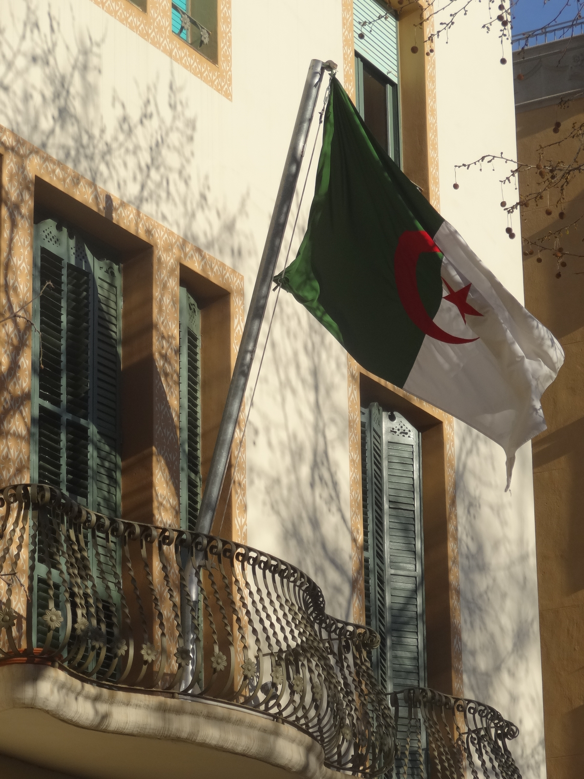 Algerian Consulate, Barcelona